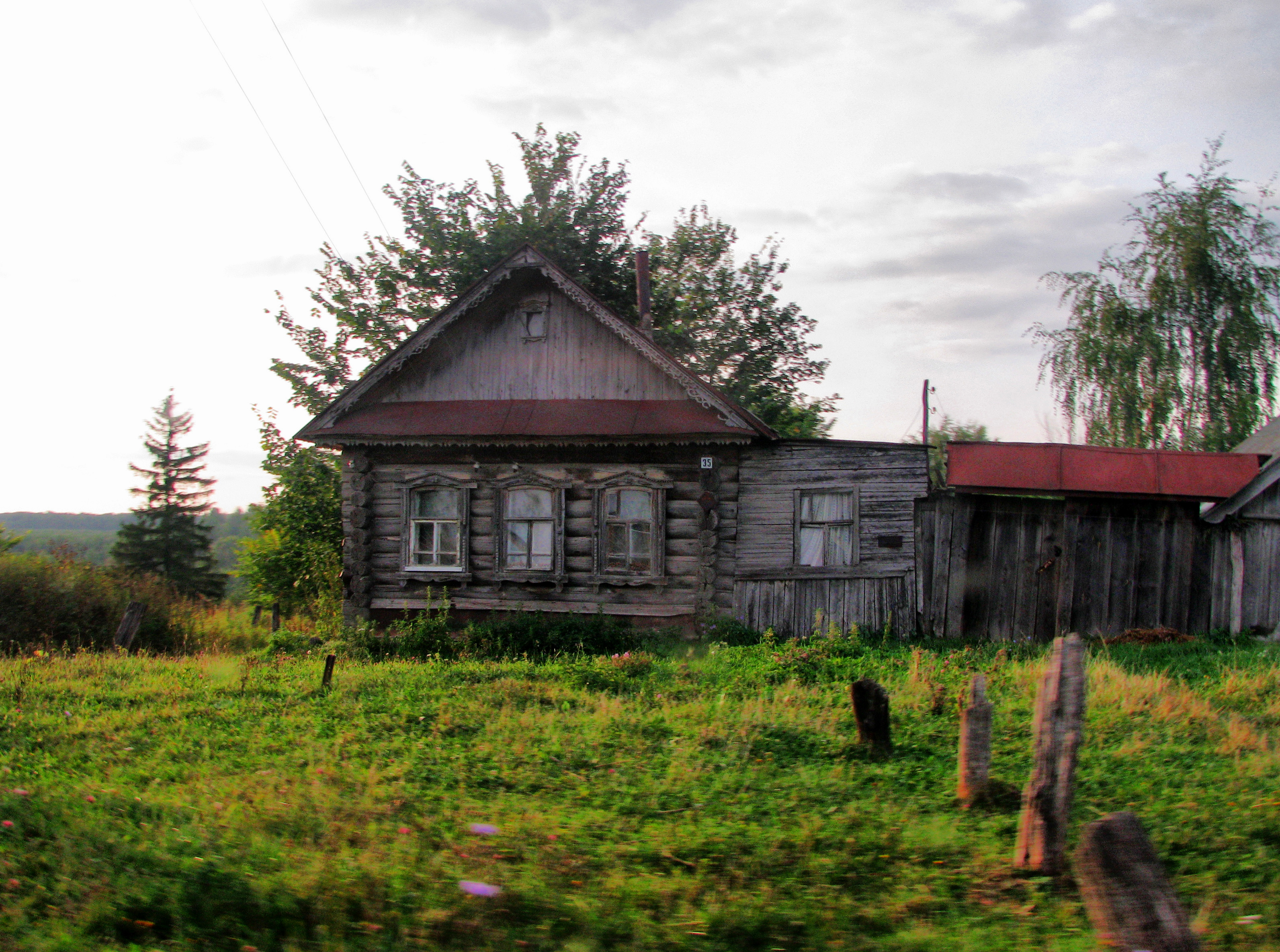 House in village Sablukovo, Arzamassky District, Nizhny Novgorod Oblast.